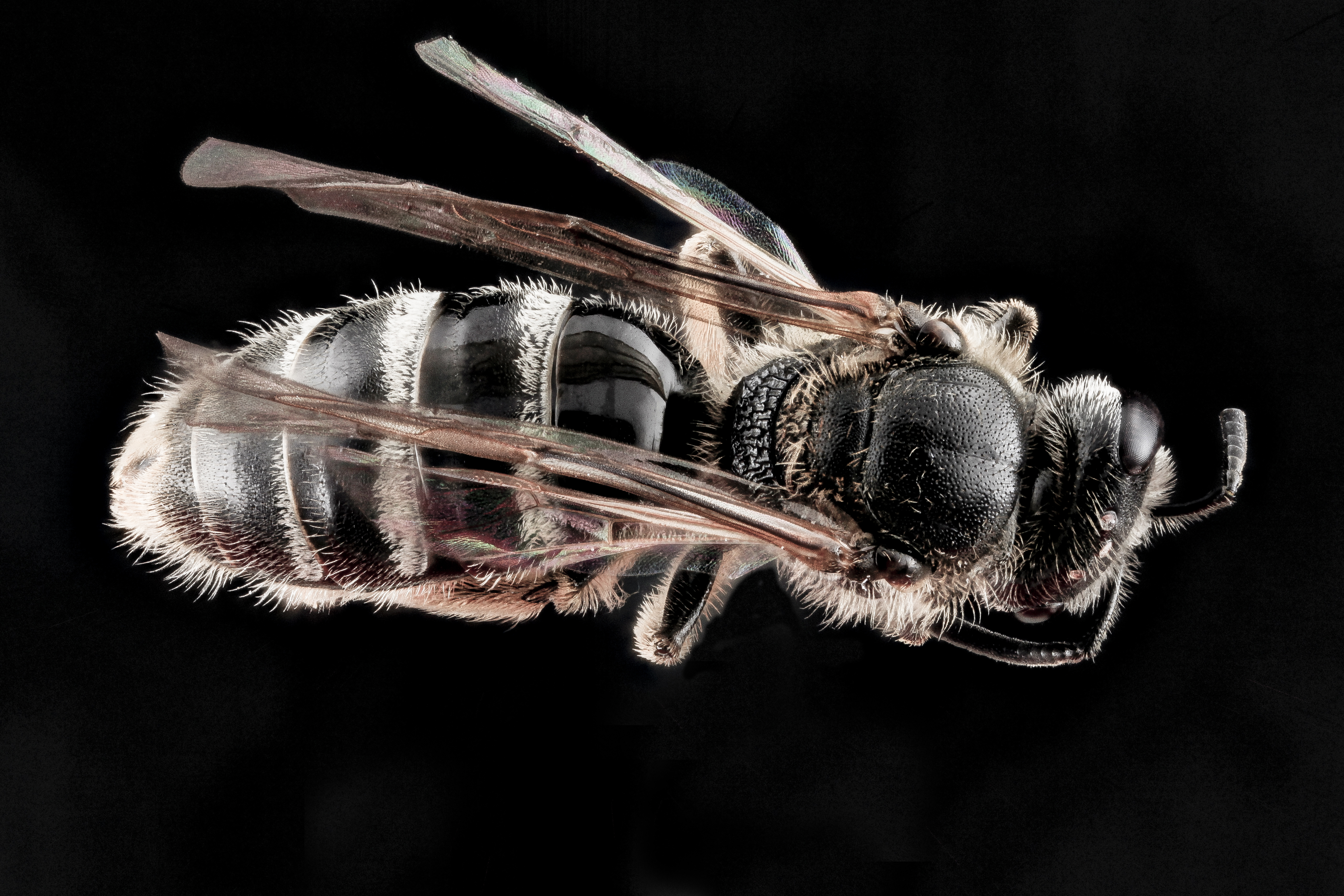 Lasioglossum truncatum, female, Pink overtones is from reflections from the stand we were using at the time, the bee is entirely black and white